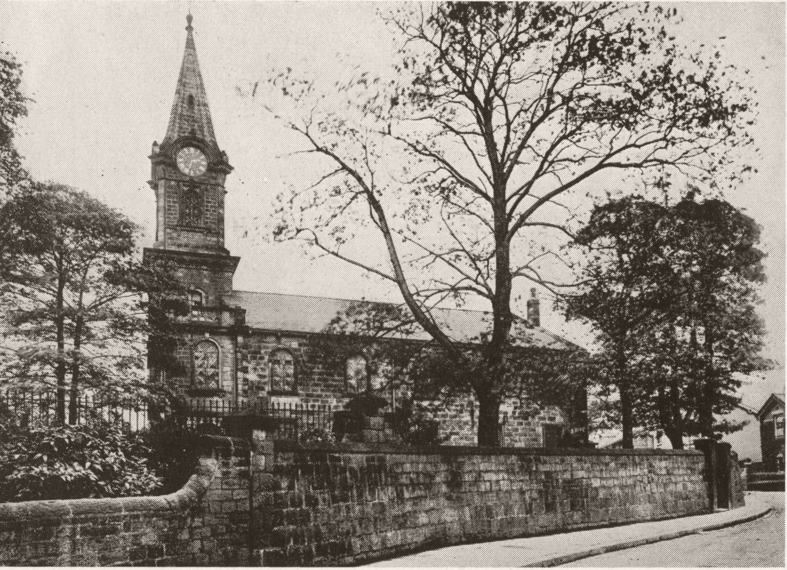 1911 photo (viewed looking south from Church Lane) of Old St Matthew's Church, Chapel Allerton, Leeds, West Yorkshire, England. Replaced 1900 with the current St Matthew's church, and Old St Matthew's was demolished 1935. Between 1900 and 1935 it was used for meetings, then became unsafe. Carving in Old St Matthews was executed during the 1861-1863 re-fit by Mawer & Ingle.